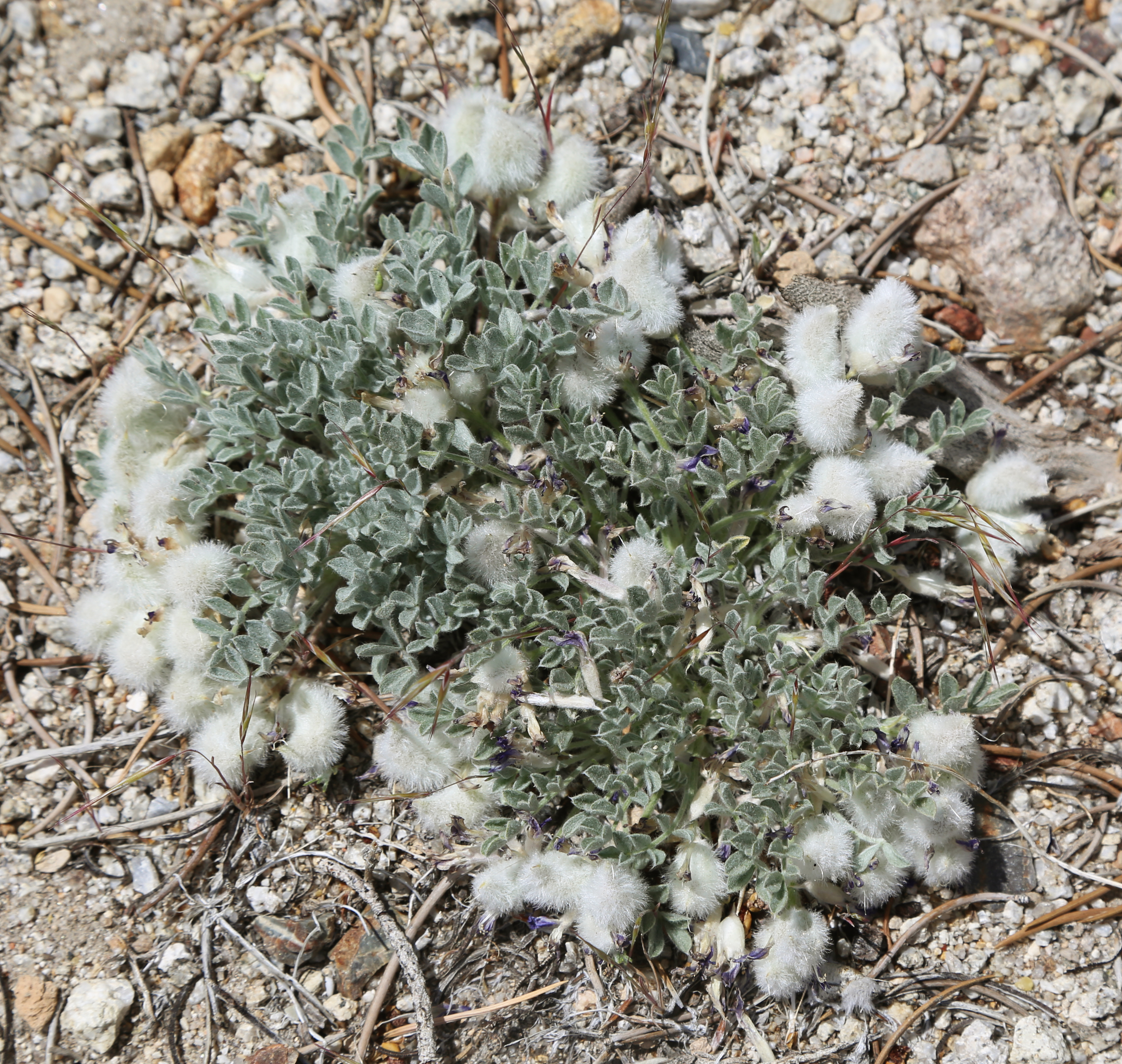 Astragalus purshii (Pursh's milkvetch), plant with fuzzy seedpods. Swall Meadows, Mono County CA, in the Eastern Sierras, at 1,880 m (6,170 ft).